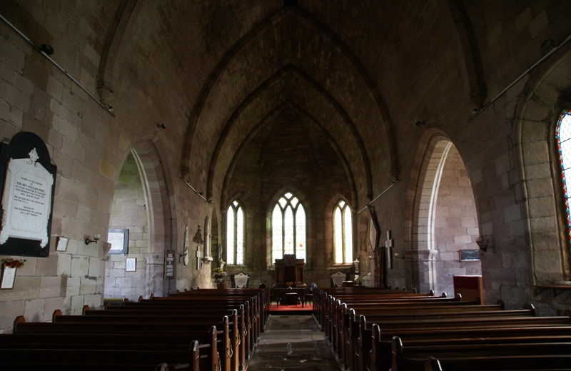 Ladykirk Church, Scottish Borders, Scotland. Interior looking east.